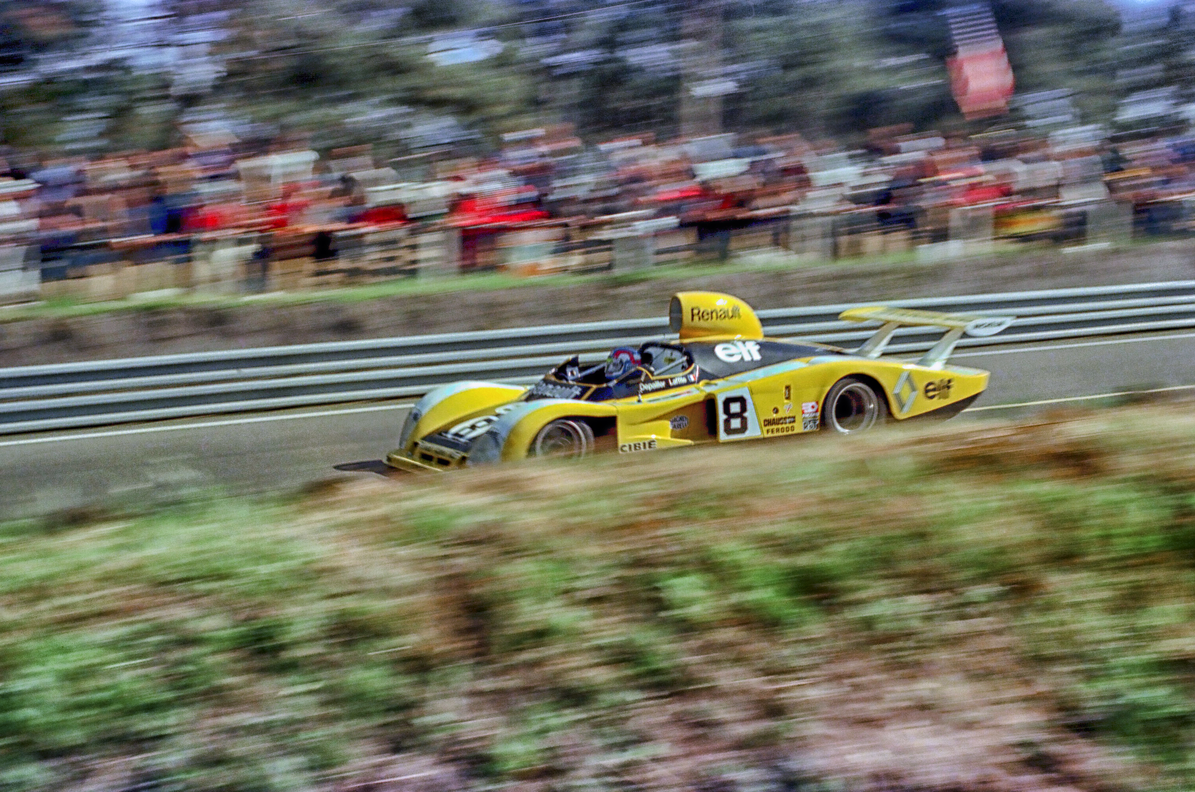 Renault Alpine A442, LeMans 24 hours 1977